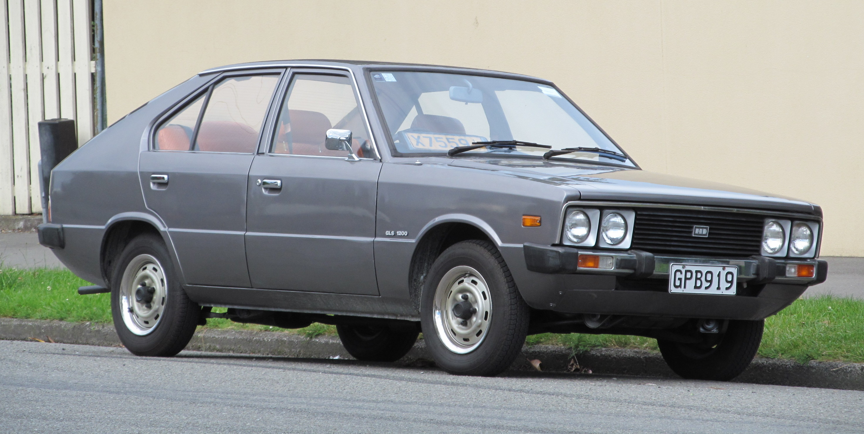 This is easily the rarest car in my area - and what a car it is! The only thing that could make it better would be if it still had its original black 1982 plates. I wonder if the bright red/orange upholstery was a special order option?